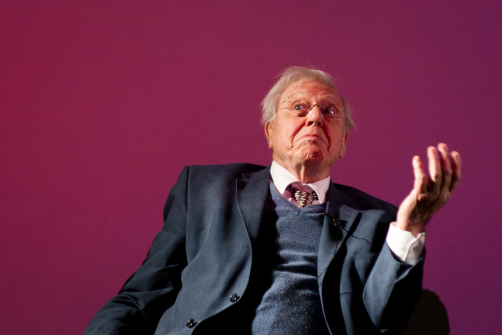 talking at 3D Creative Summit 2013